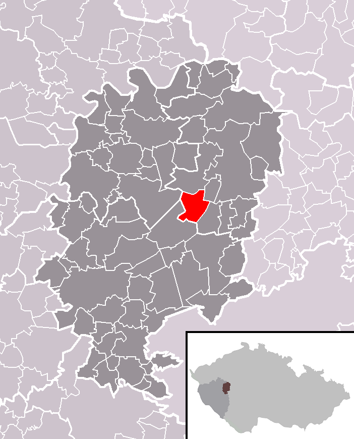 Location of Sirá municipality within Rokycany District and within identical administrative area of Rokycany as a Municipality with Extended Competence.